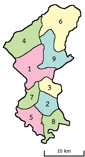 Subdistricts of Pho Chai